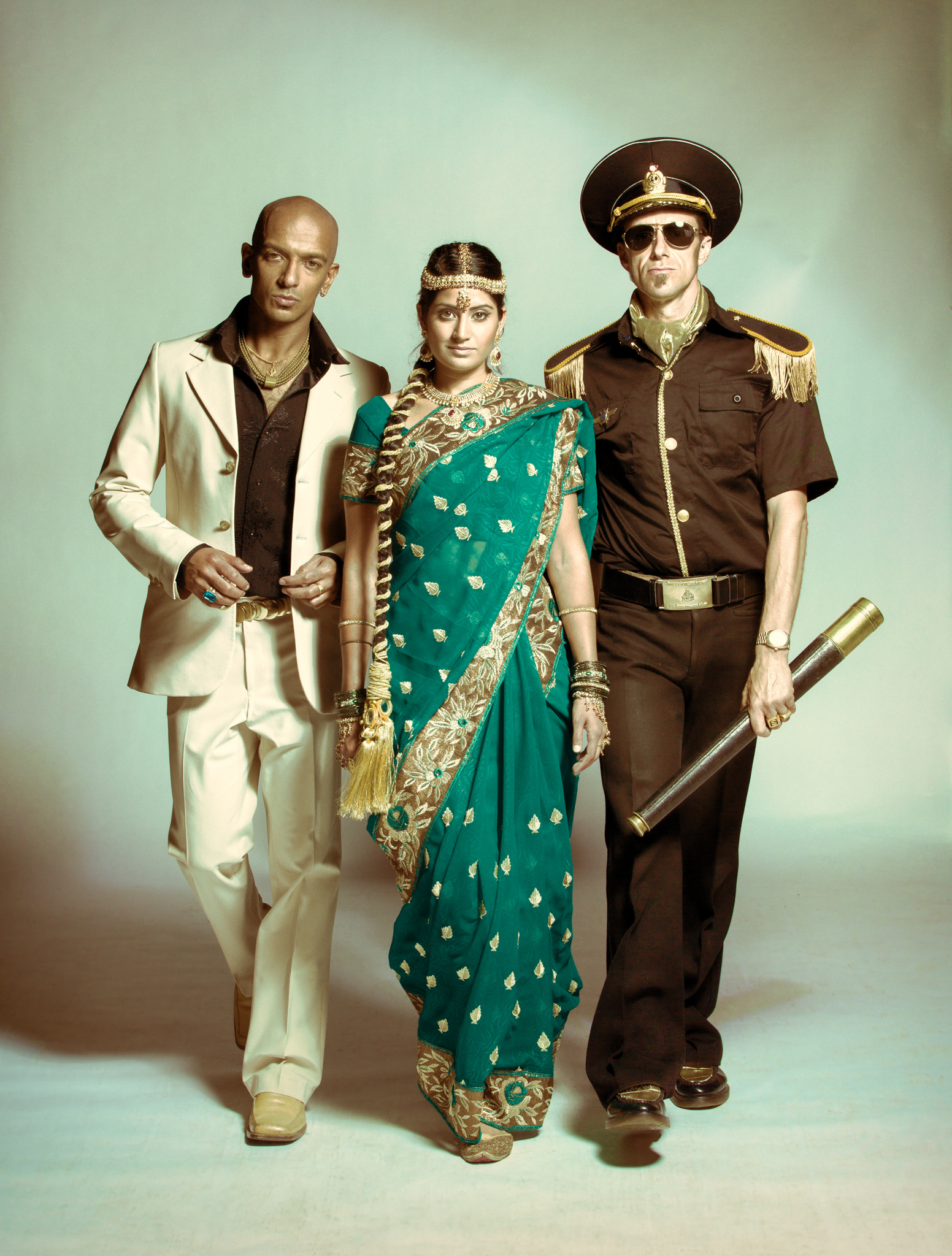 The Lady, The Tiger and The Skipper